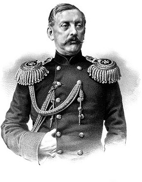 Suvorov's grandson (1804—1882)